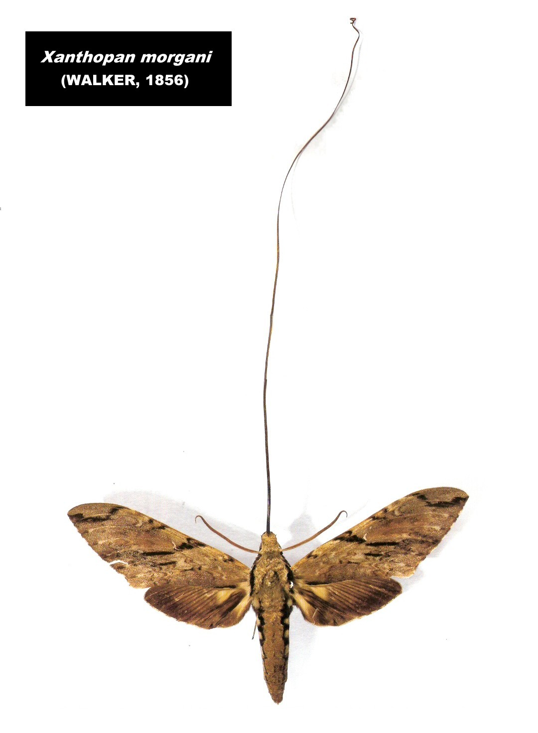 Xanthopan morganiNatural History Museum of London